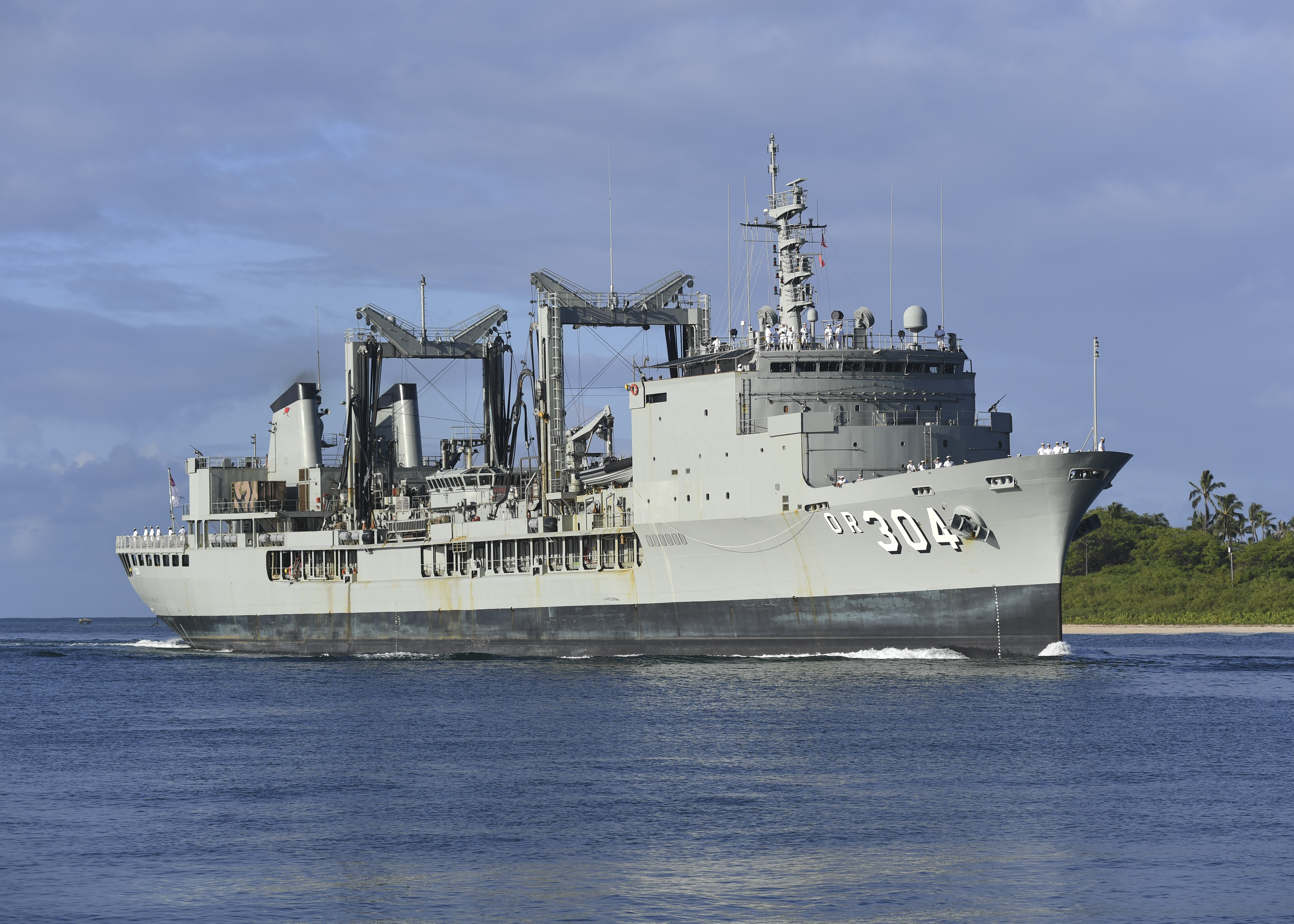 180626-N-KR702-0032 PEARL HARBOR (June 26, 2018) Royal Australian Navy multi-product replenishment oiler HMAS Success (OR 304) arrives at Joint Base Pearl Harbor Hickam in preparation for RIMPAC 2018. Twenty-five nations, more than 45 ships and submarines, about 200 aircraft and 25,000 personnel are participating in RIMPAC from June 27 to Aug. 2 in and around the Hawaiian Islands and Southern California. The world’s largest international maritime exercise, RIMPAC provides a unique training opportunity while fostering and sustaining cooperative relationships among participants critical to ensuring the safety of sea lanes and security of the world’s oceans. RIMPAC 2018 is the 26th exercise in the series that began in 1971. (U.S. Navy Photo by Mass Communication Specialist 1st Class Holly L. Herline)